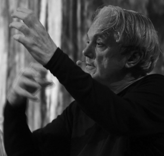 Robert Blalack speaking at the Cinematheque Francaise on June 12, 2015